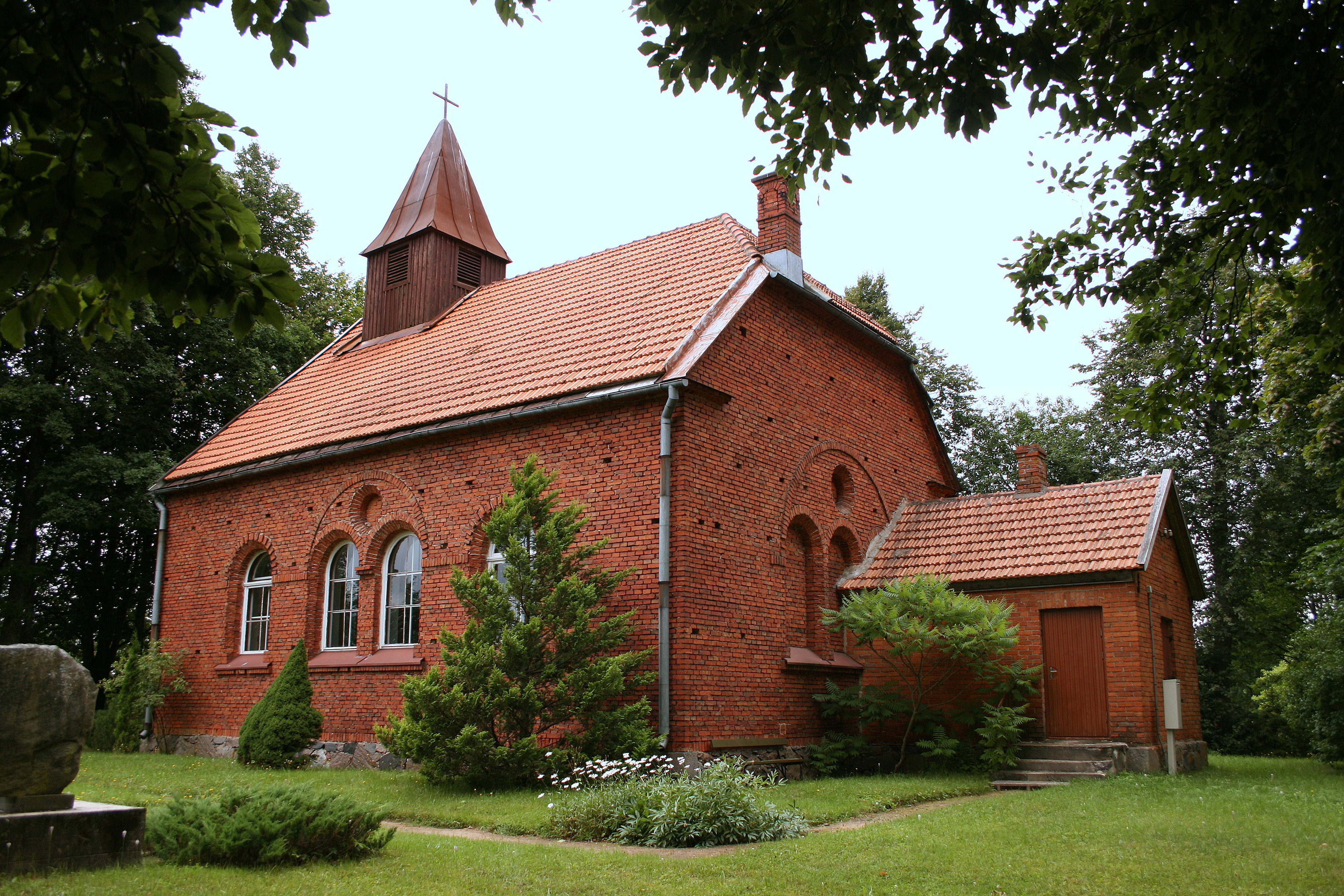 Rudbārži Evangelical Lutheran ChurchLatviešu: Rudbāržu evaņģēliski luteriskā baznīca